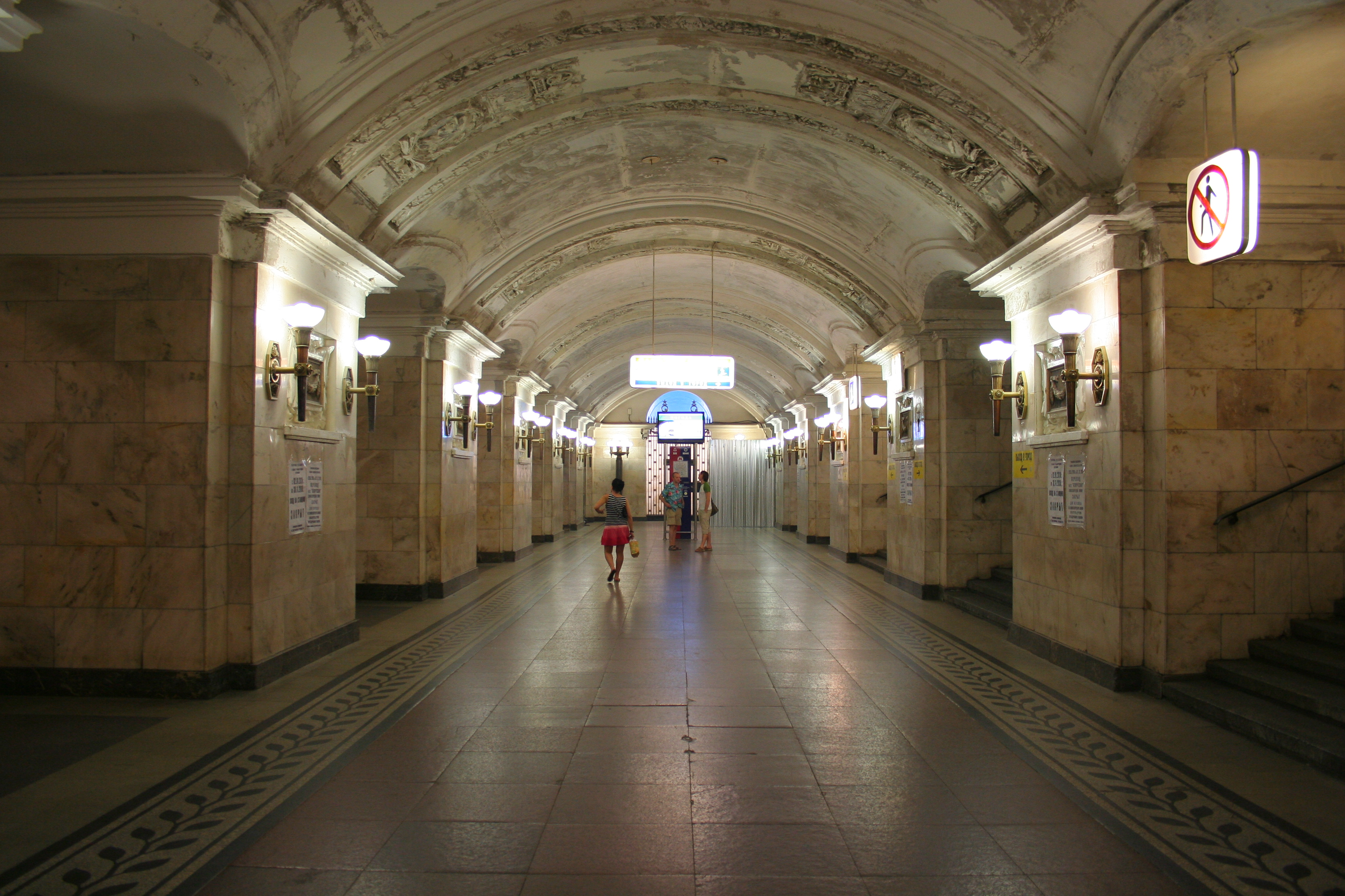 Metro station Oktyabrskaya (KL) in Moscow.